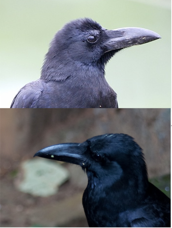 Corvus levaillantii above from Kaziranga, Assam and Corvus culminatus below from Sri Lanka